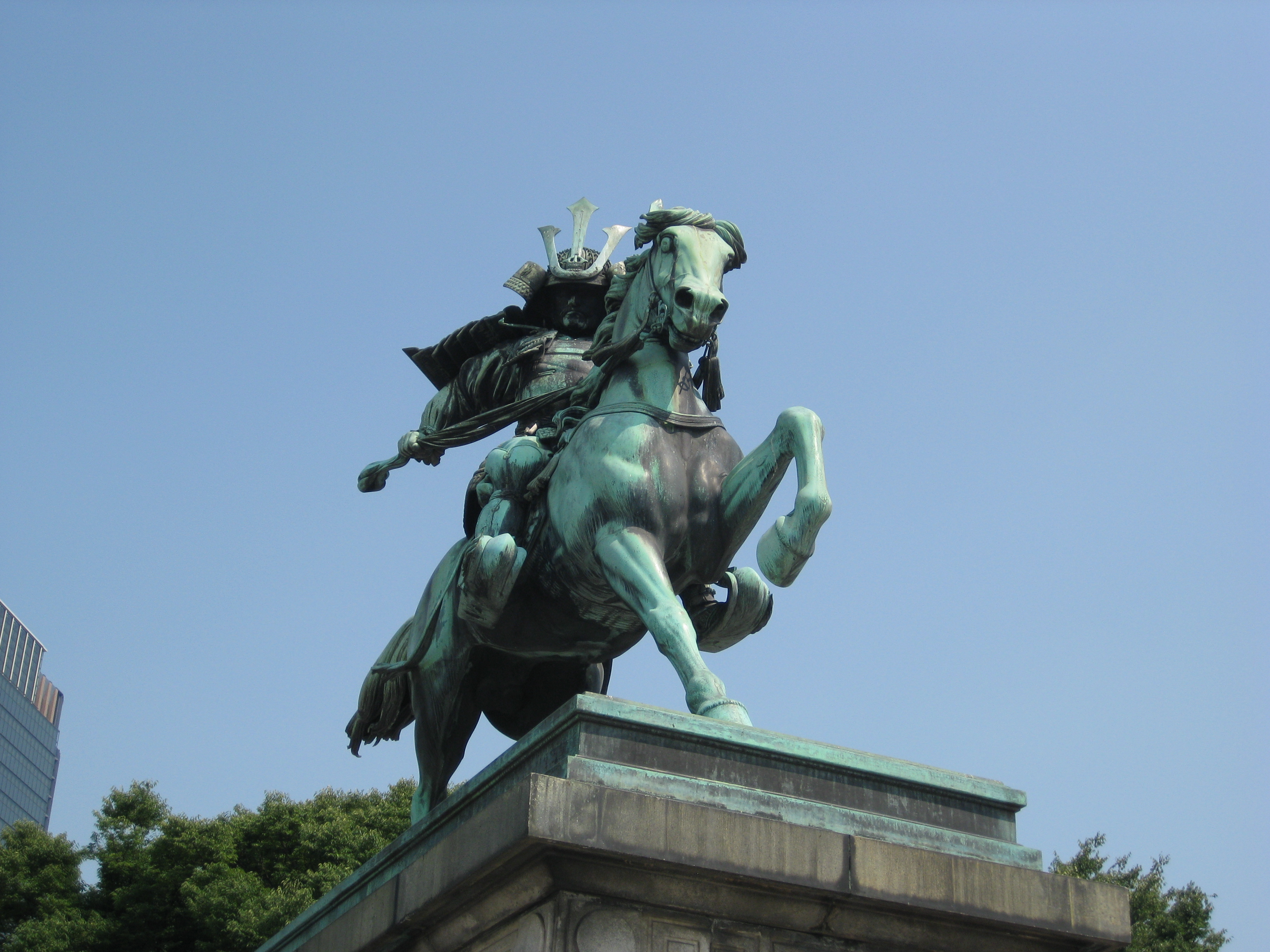 Statue of Kusunoki Masashige, in Chiyoda, Tokyo, 2009.